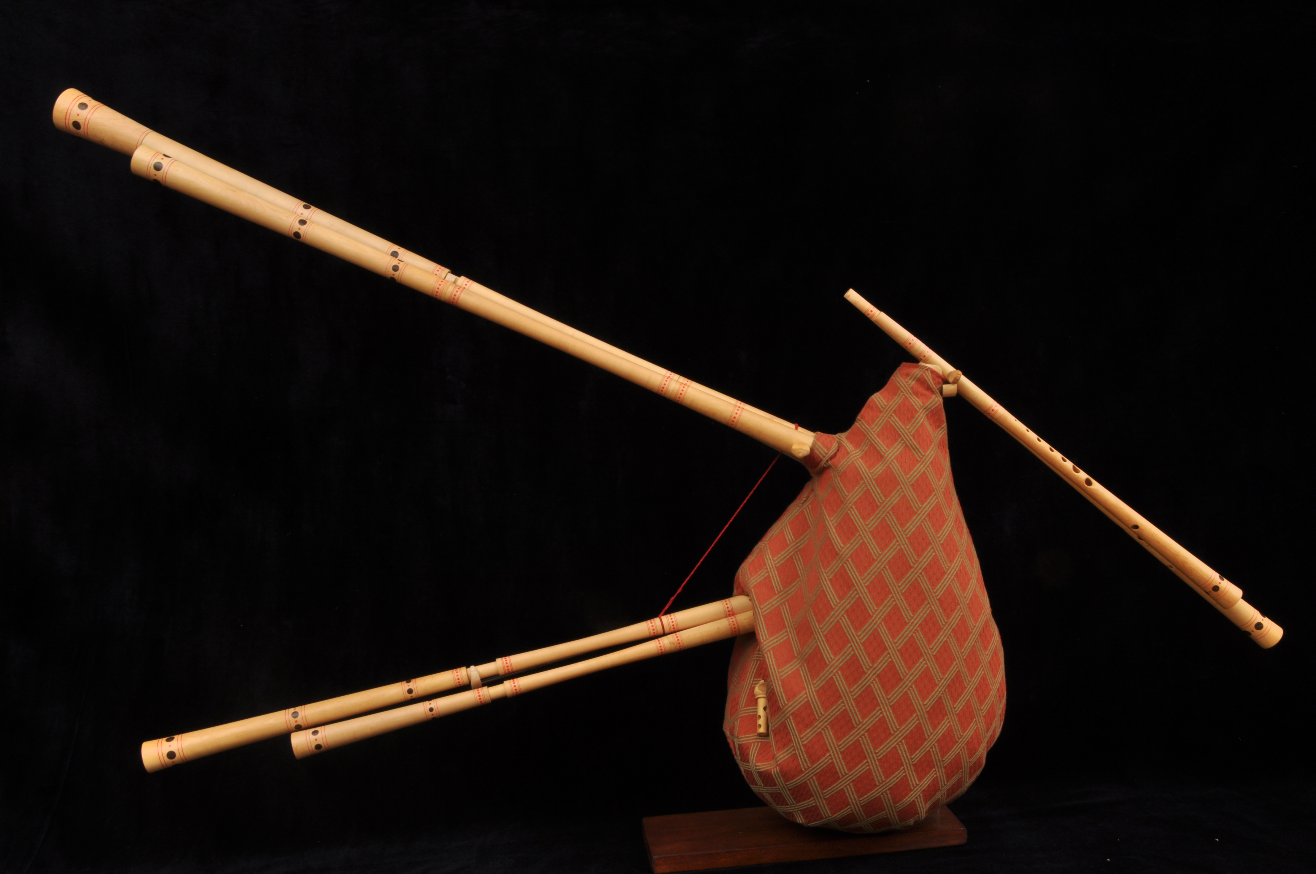 Reproducción of the bagpipe apearing in the Cantiga 350 of Alfonso X "the wise", made by Pablo Carpintero